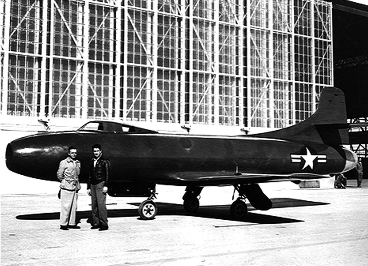 In this photograph the Douglas D-558-1 #2 Skystreak is pictured with test pilot Eugene May (Douglas Aircraft Company) on the left and National Advisory Committee for Aeronautics (NACA) research pilot Howard Lilly on the right. The number two Skystreak was the aircraft that crashed taking Howard Lilly’s life. The Skystreak in this photograph was still painted bright red. The NACA later had the color of the Skystreaks changed to white to improve optical tracking and photography. The crash that killed Howard Lilly occurred on May 3, 1948. Lilly had just taken off and retracted the landing gear when the engine compressor broke apart. The fragments severed the airplane's control lines. Lilly had no chance to escape before the D-558-1 hit the lakebed. One of the roads into what is now the Dryden Flight Research Center is named after Lilly, who was the first NACA research pilot killed in the line of duty.